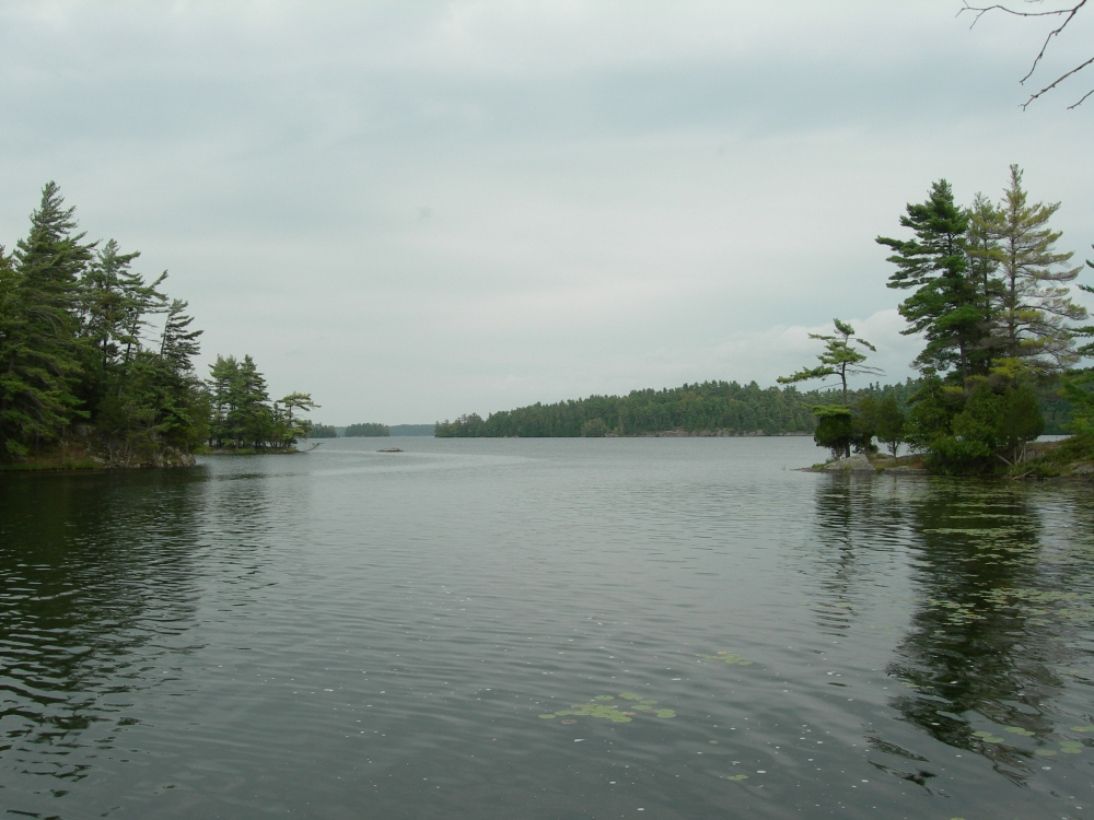 View of Charleston Lake, Ontario from the Slim Bay bridge in Charleston Lake Provincial Park